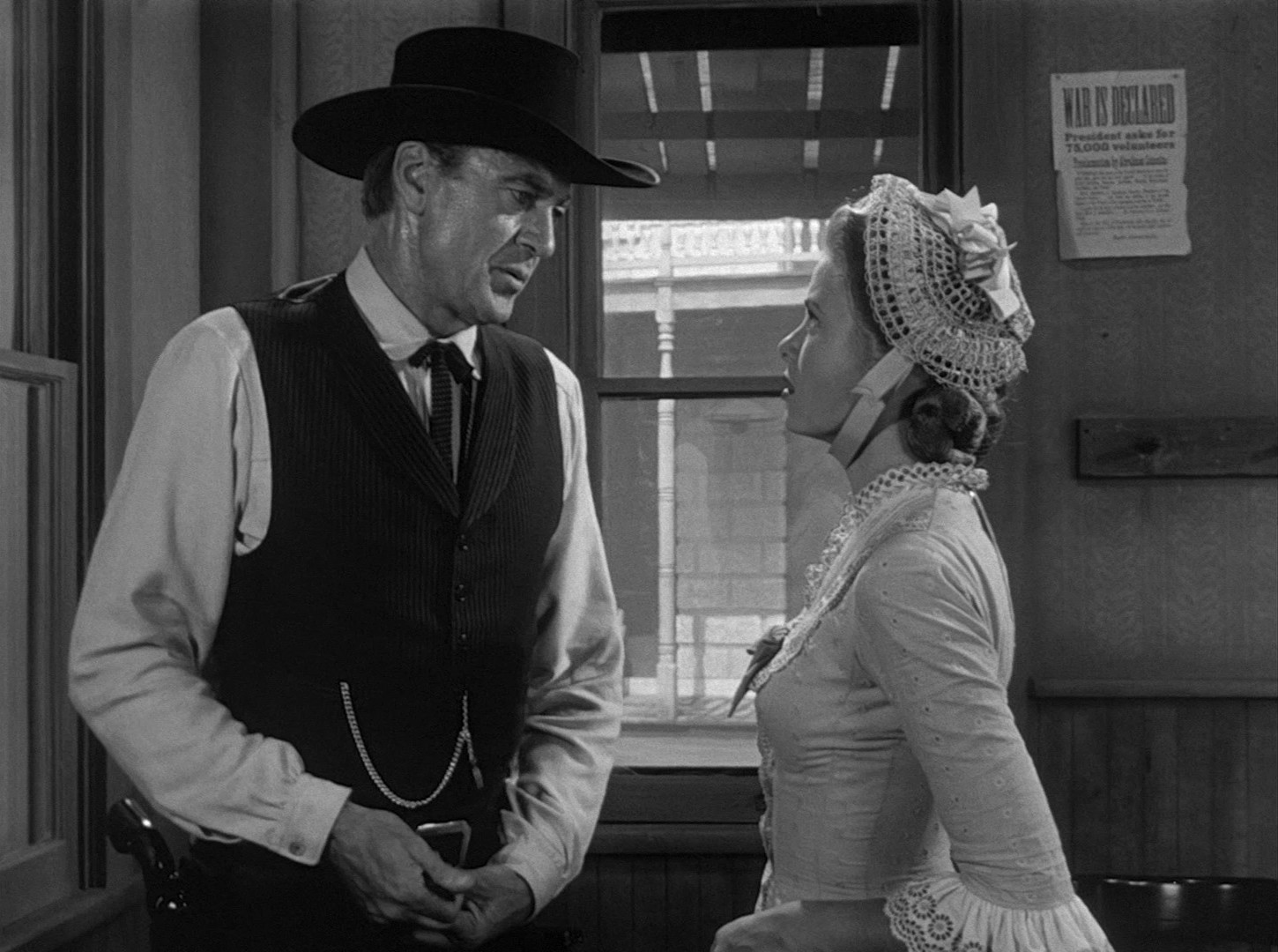 Screenshot of Grace Kelly and Gary Cooper from the trailer of the film High Noon